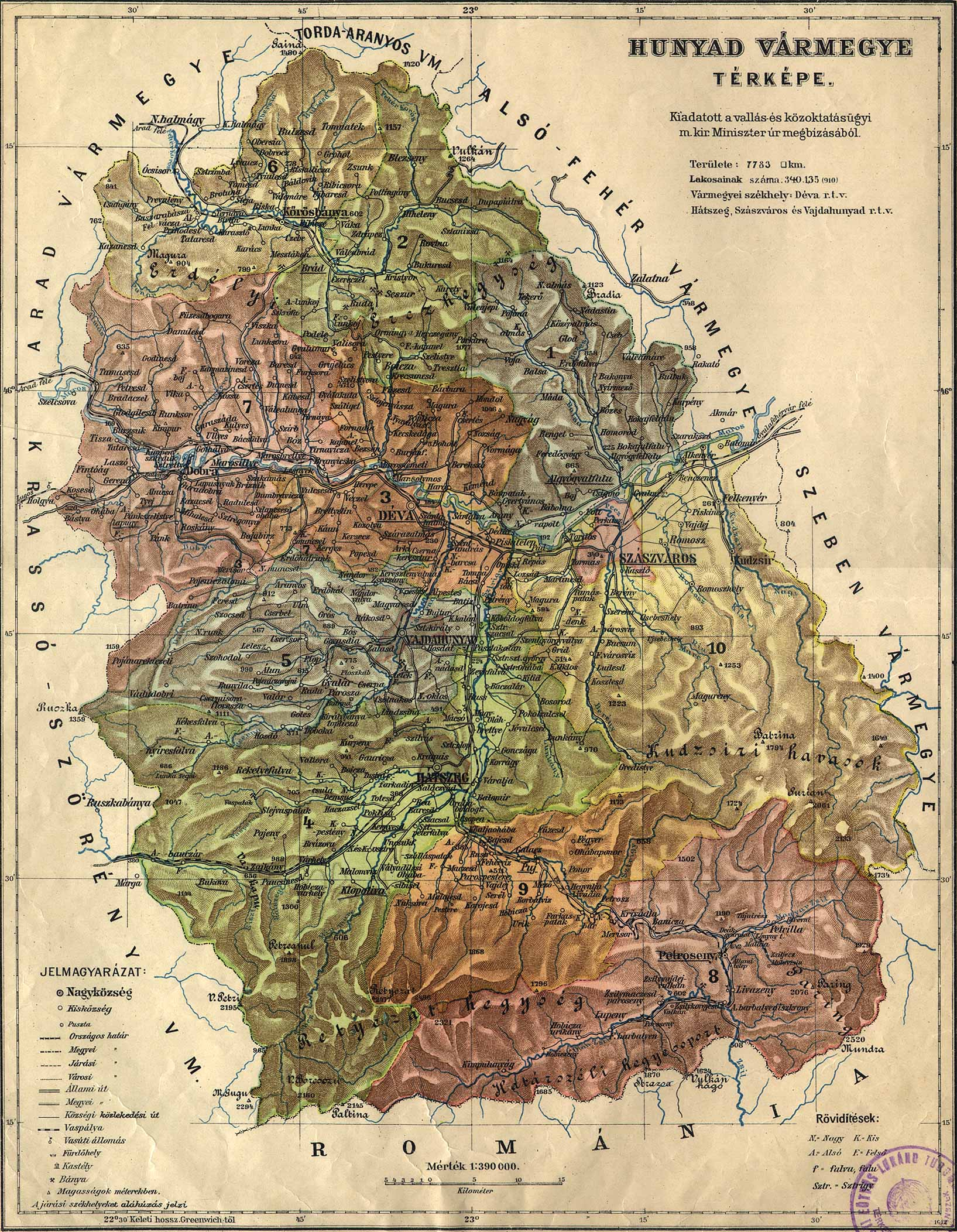 Administrative map of the county of Hunyad in the Kingdom of Hungary